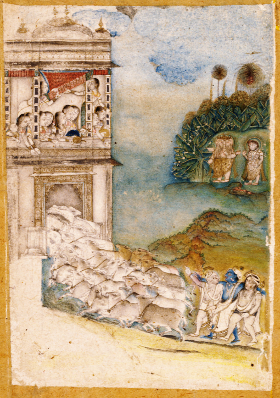 Unfinished water-colour drawing of Krishna bringing a herd of cows home in the evening, accompanied by two cowherds. Ladies look down on him from an upper window, and the gods Shiva and Brahma are in attendance on the right. Possibly a sketch for a slightly different painting in the Cowarji Jahangir Collection, Bombay, which is ascribed to Chikha and dated V. S. 1870 (A. D. 1813). his delicate water-colour scene is attributed to the artist Chokha, who worked for Maharana Bhim Singh of Mewar in Rajasthan, and also for the ruler of the nearby smaller state of Deogarh. It shows the god Krishna in his youthful role as a cowherd, bringing the herd home after a day's grazing. This time of day is known as the 'hour of cow-dust' in India and is a favourite subject for paintings. The village ladies watch his arrival from an upper storey, and the gods Shiva and Brahma are seen in a grove to the right of the scene. The painting is unfinished, and it may be a preparatory sketch for a very similar painting (in an Indian collection) which is inscribed with Chokha's name and the date 1813 AD.